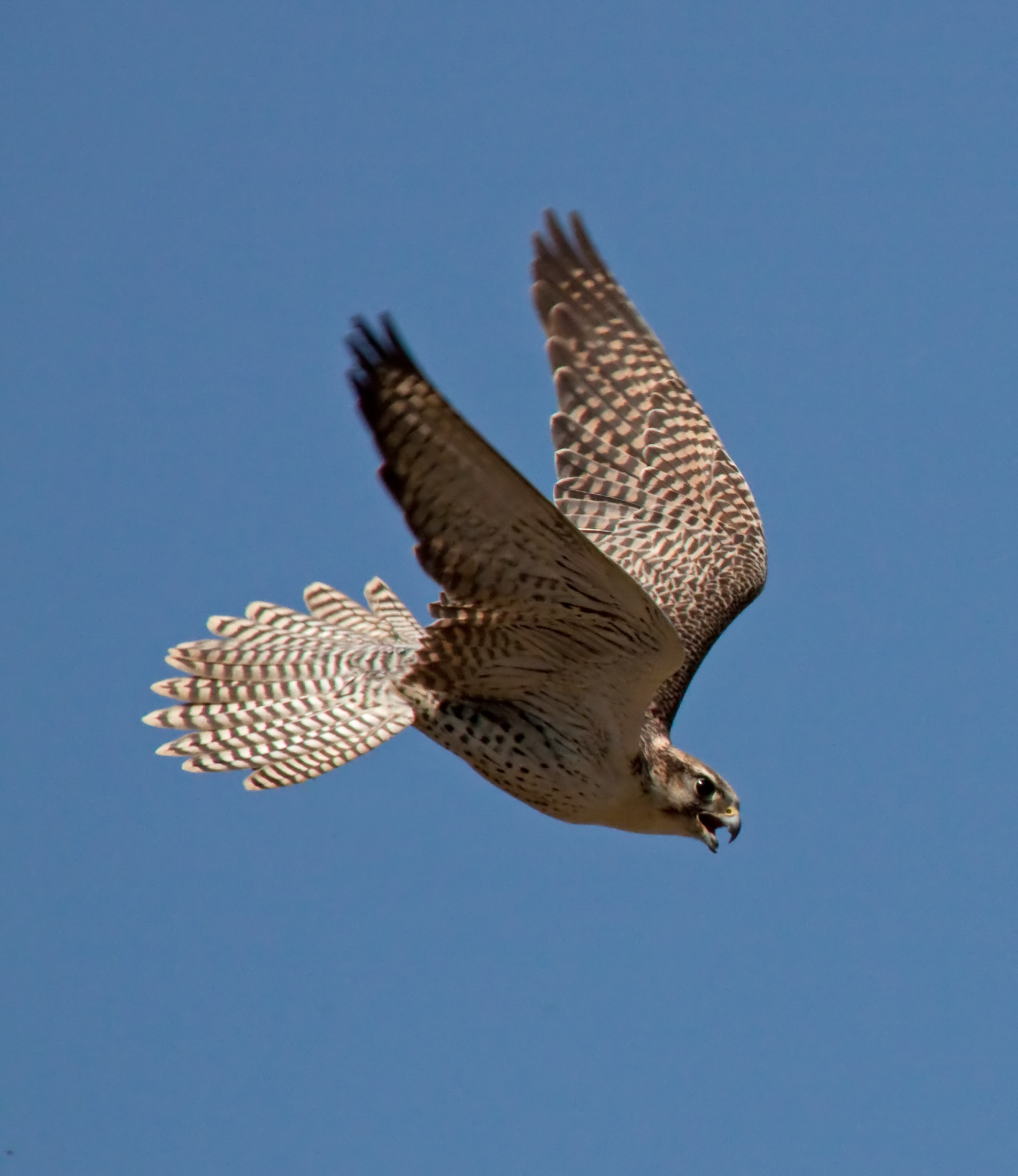 I love watching Falcons flying, especially as they twist and turn at high speed, but they are a nightmare to photograph.